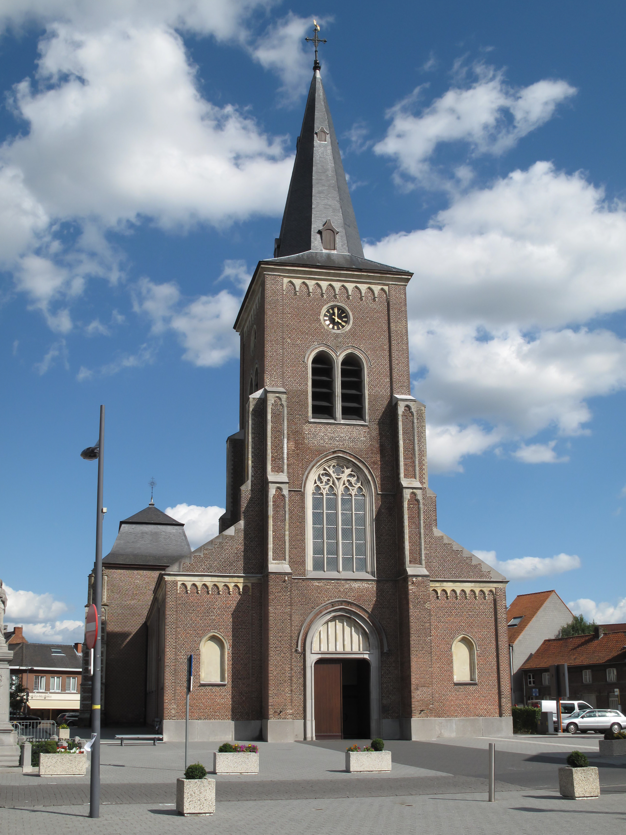 Herk de Stad, church: Sint Martinuskerk